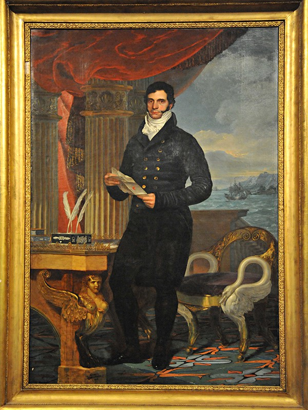 Portrait of Sir Neil Campbell